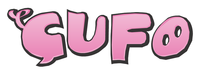 Cufo TV logo